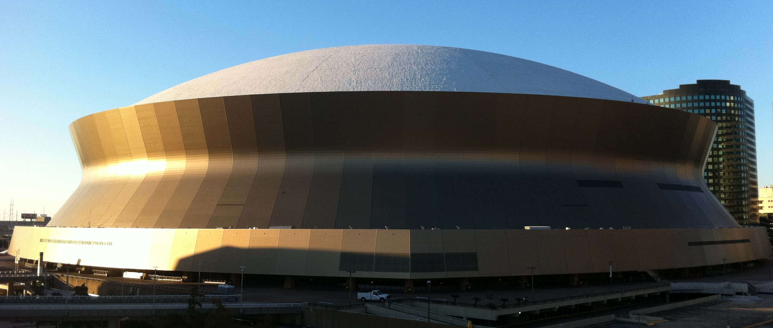 Louisiana Superdome. This was taken October 14, 2011 on the 7th floor of the adjacent New Orleans Center parking garage at roughly 5:30pm, with my iPhone 4, HDR Mode off. By Nicholas Williamson.